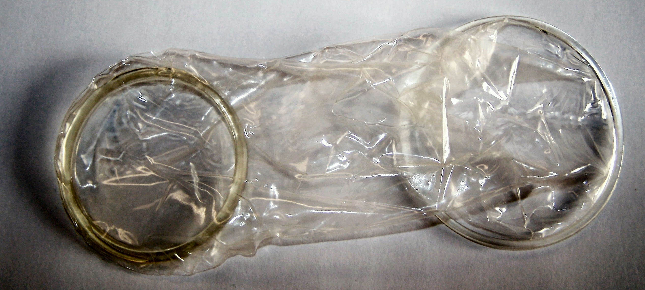 Female condom